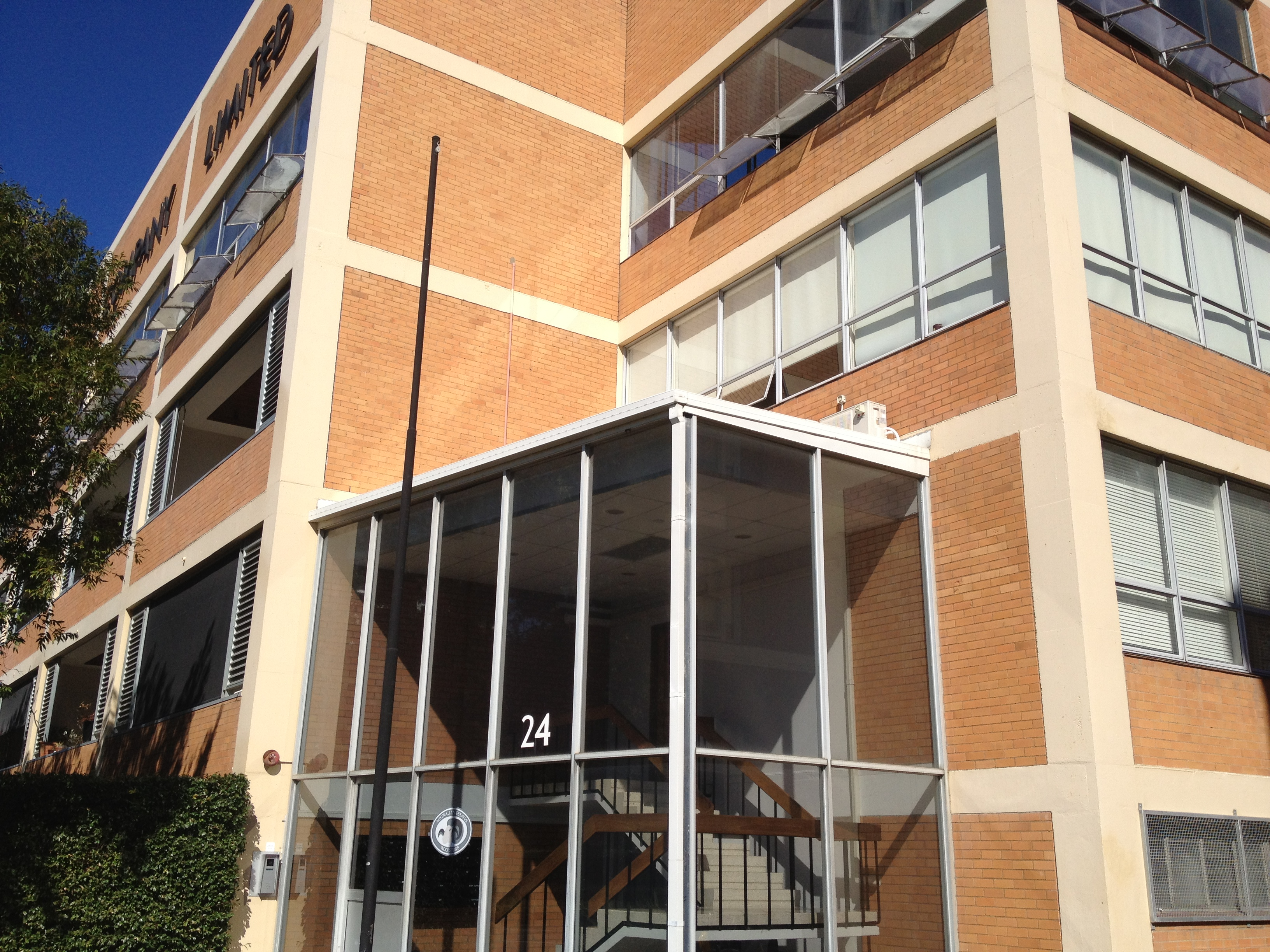 Teneriffe Woolstore Australian Estate